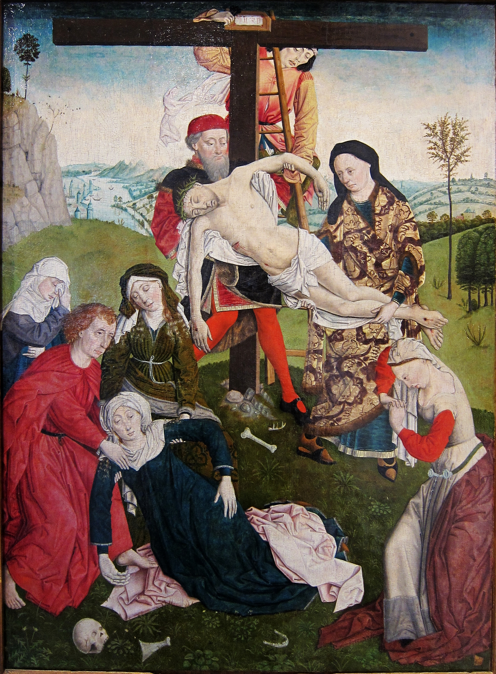 Descent from the Cross